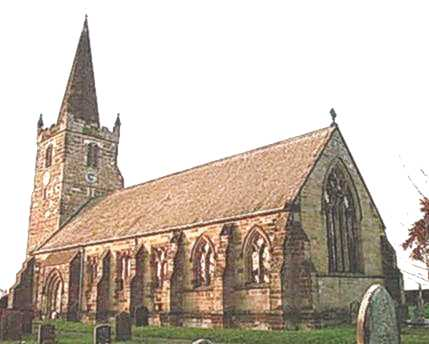 St Catherine's Church, Barmby Moor, East Riding of Yorkshire, England.